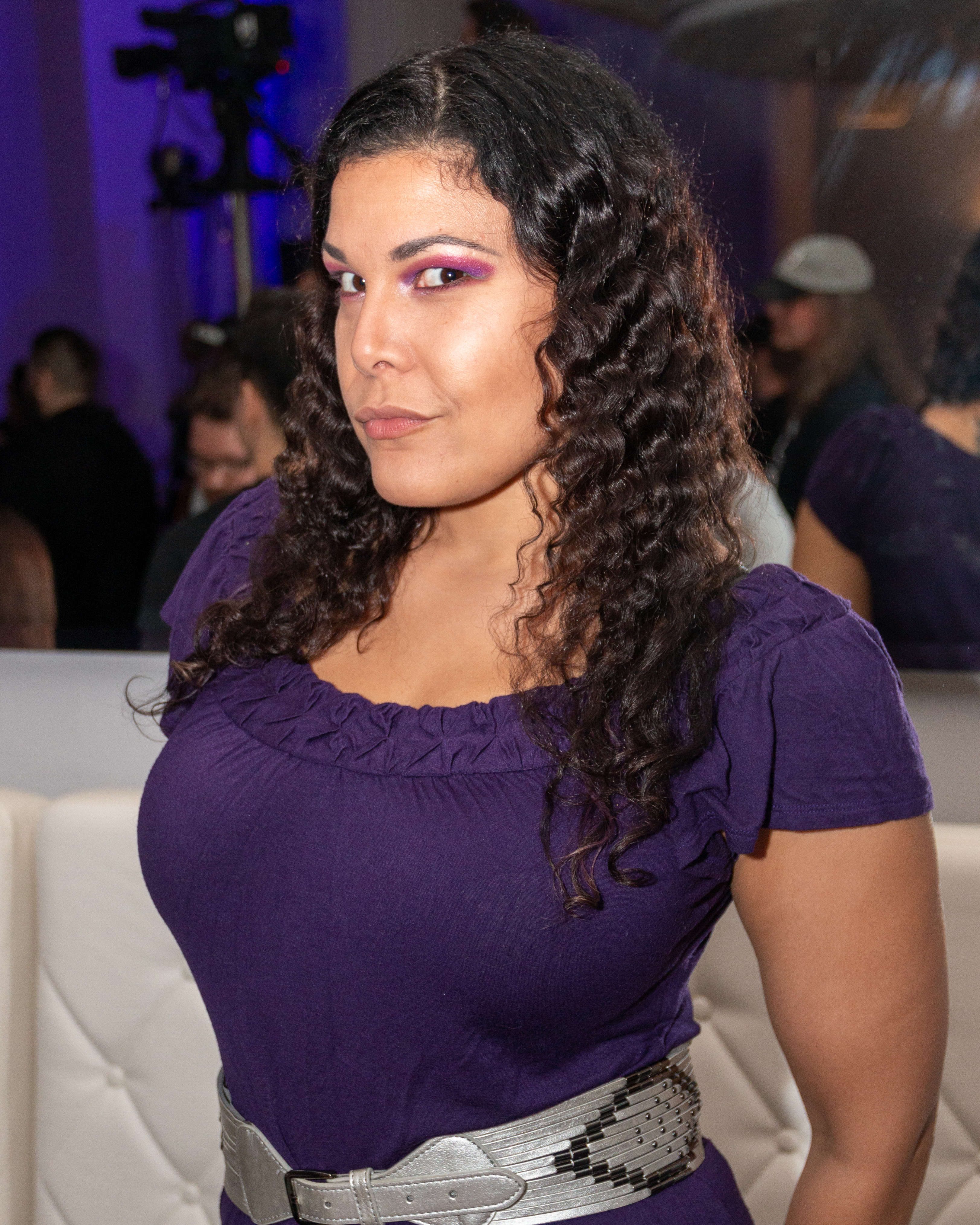 Independent wrestler Vanessa Kraven at Smash Wrestling's The Summit show in Toronto, ON